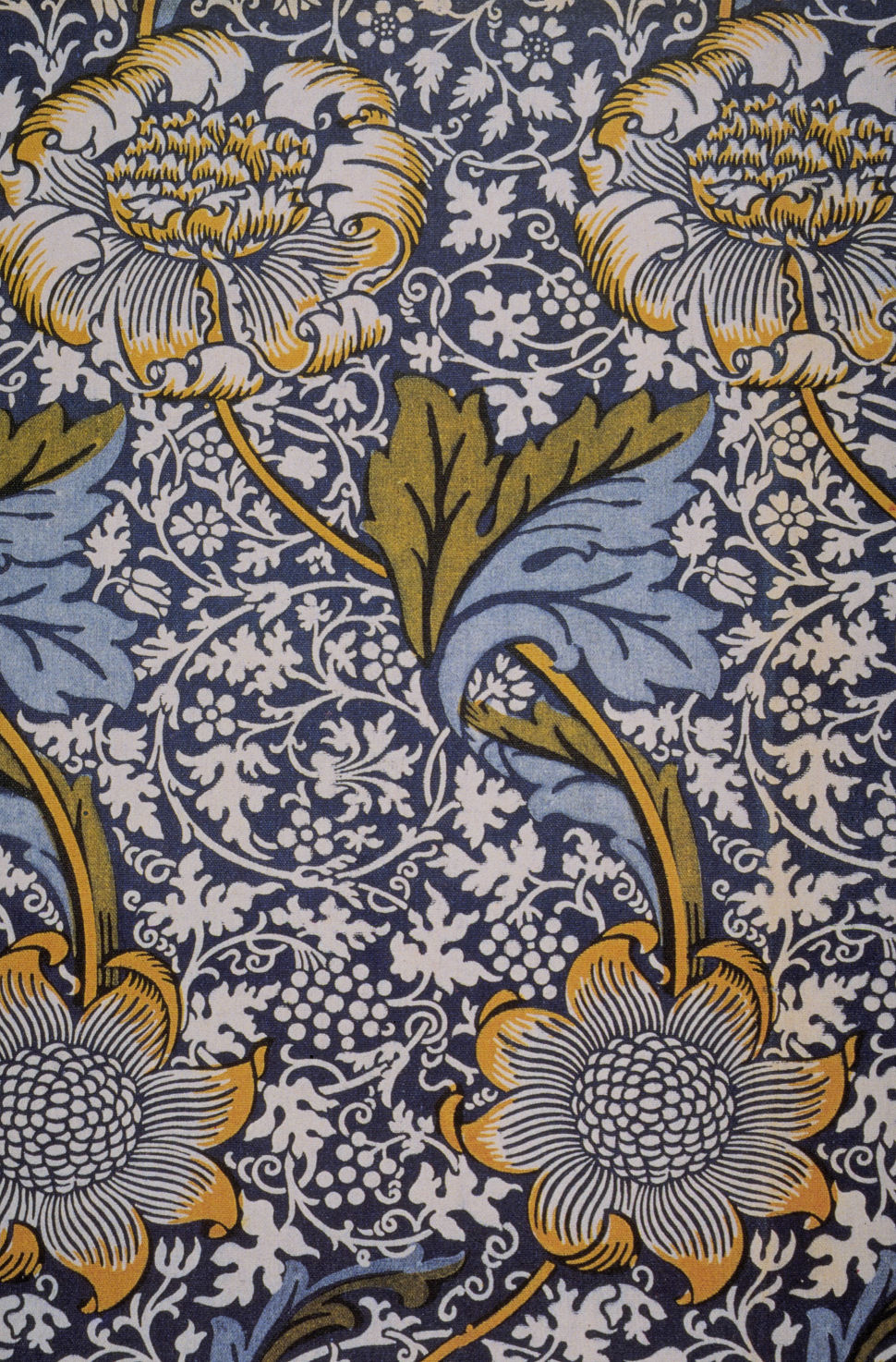 Kennet indigo-discharge printed textile designed by William Morris. (Identification from Linda Parry: William Morris Textiles, New York, Viking Press, 1983, ISBN 0-670-77074-4, p. 155)